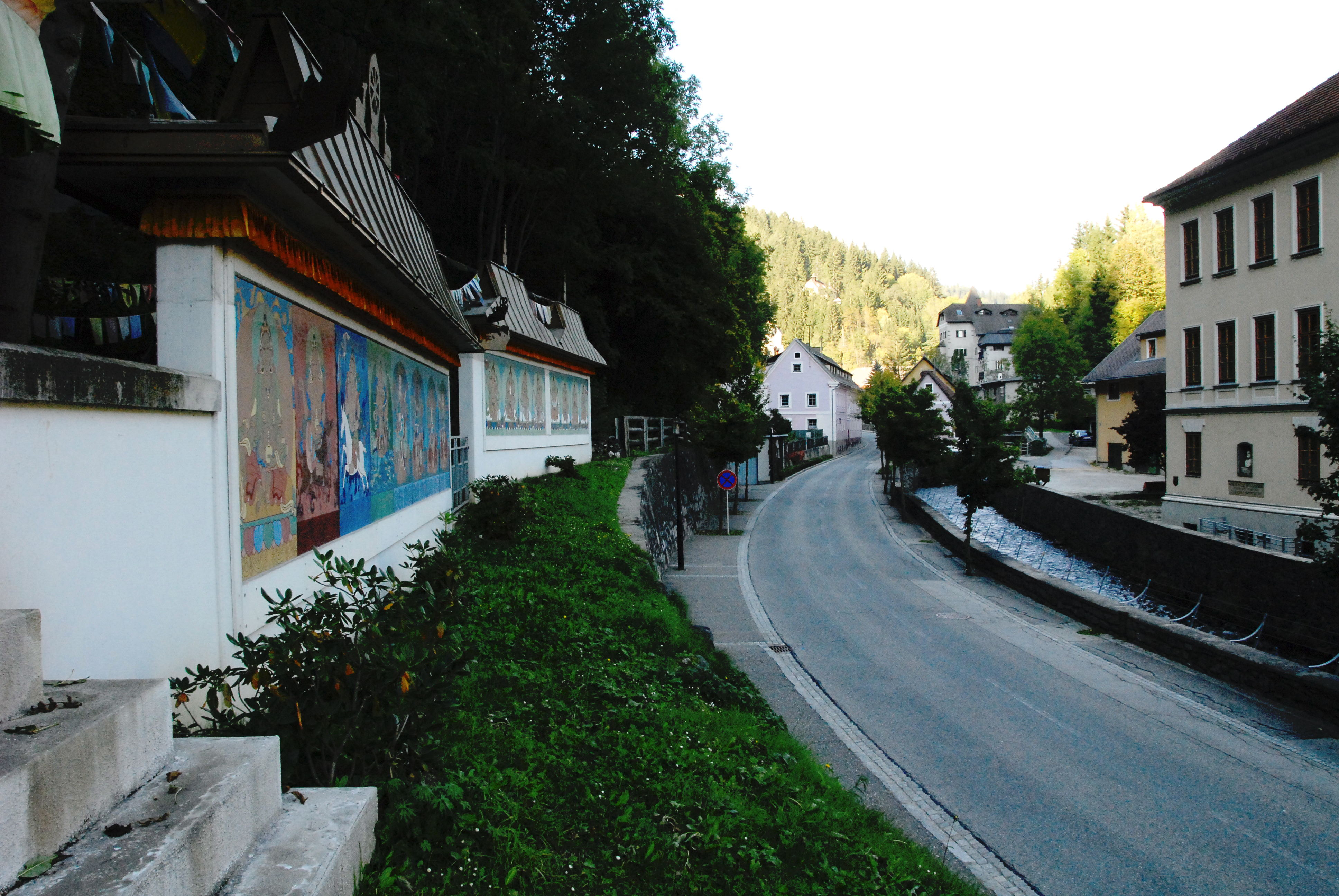 Federal road B92, the «Görtschitztal Road», market town Hüttenberg, district Saint Veit on the Glan, Carinthia, Austria, EU